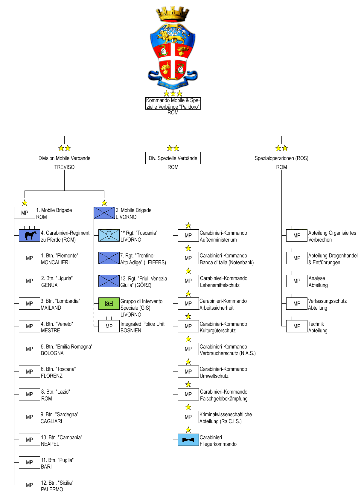 Structure Italian Carabinieri Specialist & Mobile Unit Command "Palidoro" (German version)